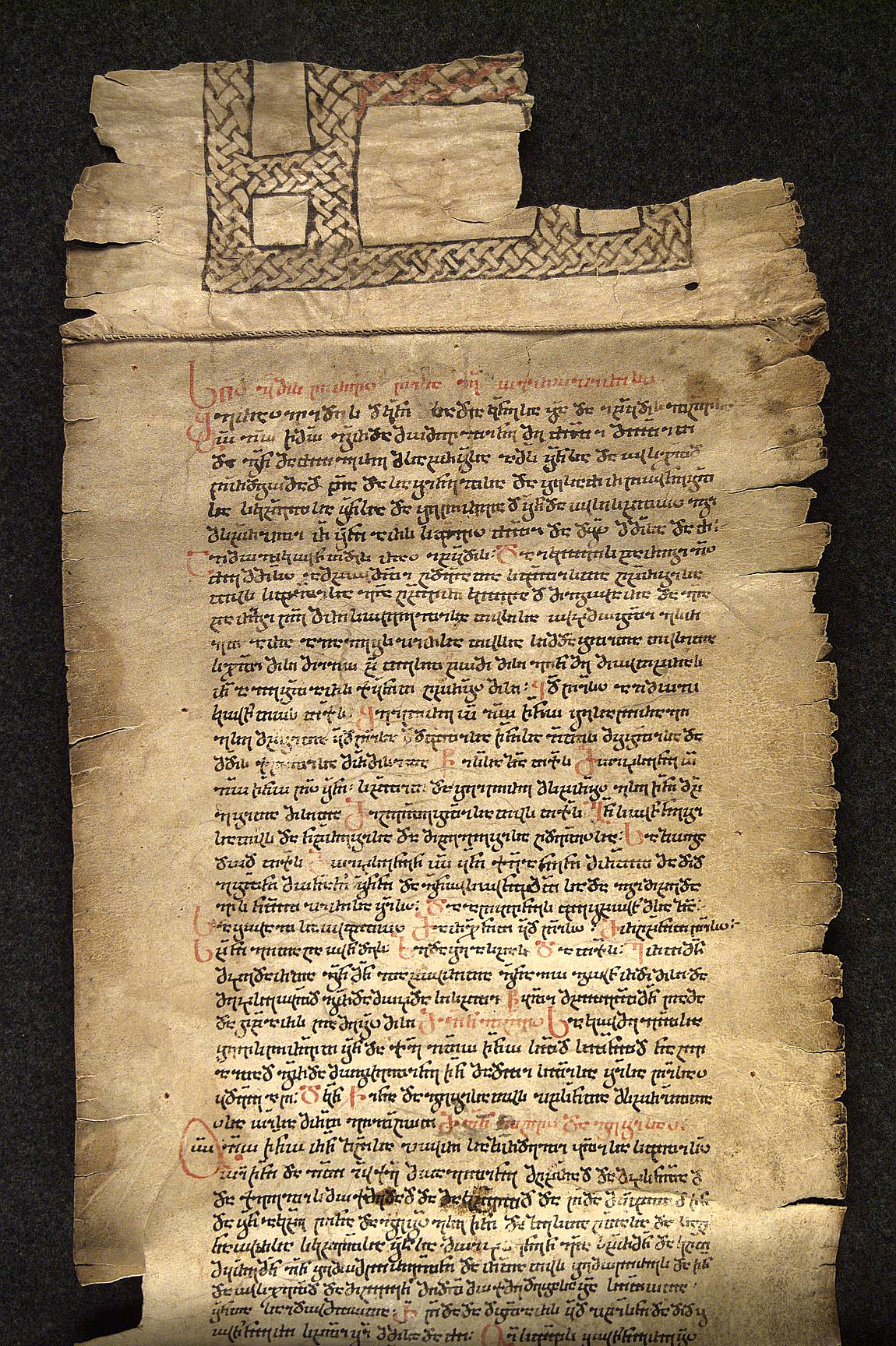 Uʒvelesi kartuli xelnac̣erebi avsṭriaši.